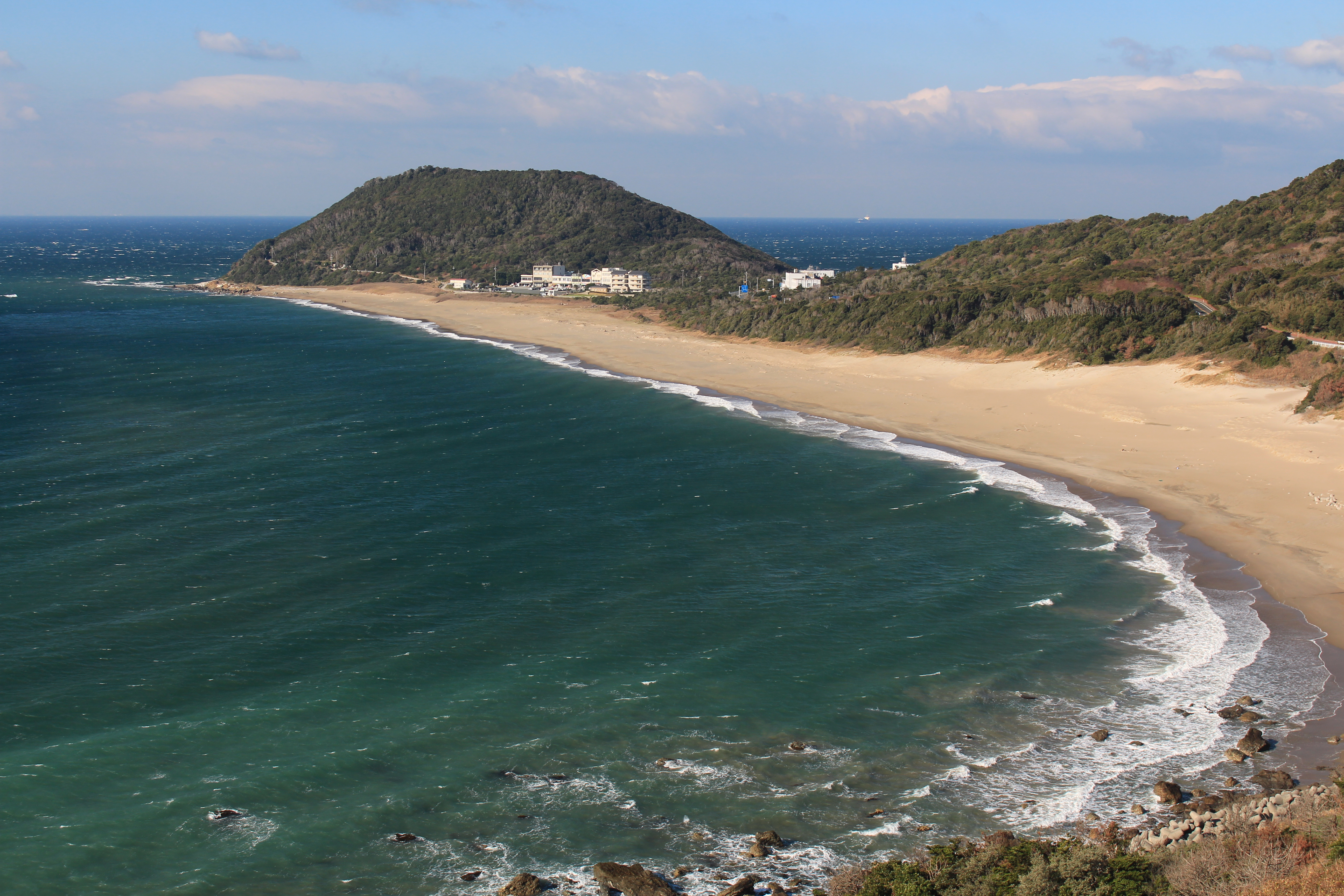 Cape Irago and Koiji Beach in Tahara, Aichi prefecture, Japan.